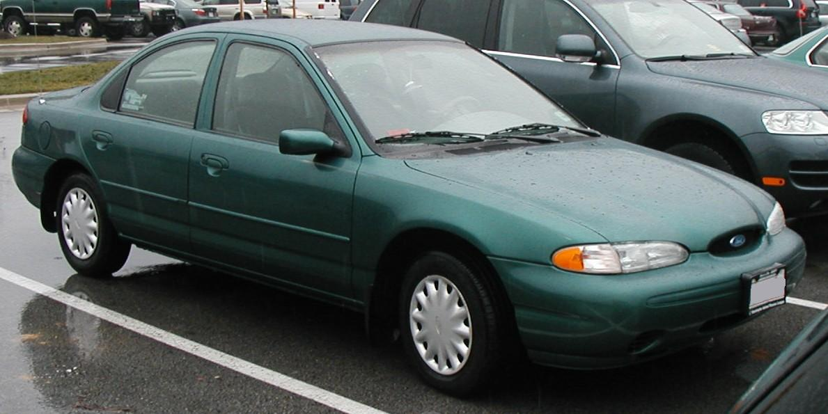 1995-1997 Ford Contour photographed in USA.